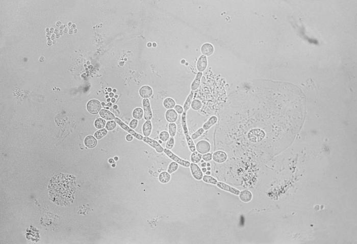 ID#: 9812 This transmission photomicrograph depicted a number of Candida albicans chlamydospores, or chlamydoconidium that were present in a sputum specimen. Chlamydospores are the round terminal asexual segments of the asexual conidium, which are not shed at maturity. C. albicans is a yeast-like member of the phylum known as Deuteromycota, or “Fungi Imperfecti, and is the etiologic agent responsible for the disease, ”Candidiasis”. The clinical features of candidiasis depend upon whether or not the ailment is oropharyngeal, vulvovaginal, or systemic in nature. Oropharyngeal candidiasis manifests as white oropharygeal mucosal patches. Vulvovaginal candidiasis includes symptoms of purities, vulval erythema, and may, or may not present a discharge. Systemic infection usually presents as a fever and chills, and is unresponsive to antibacterial therapy; may manifest as renal or hepatosplenic infection, meningitis, endophthalmitis, endocarditis, osteomyelitis and/or arthritis.